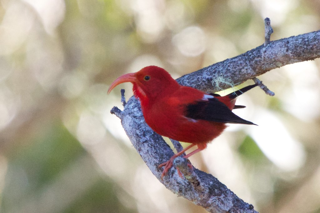 An adult Iiwi in Hawaii.